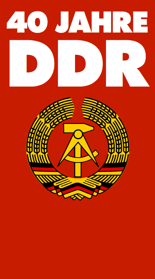 Logo commemorating 40 years of the GDR in 1989.